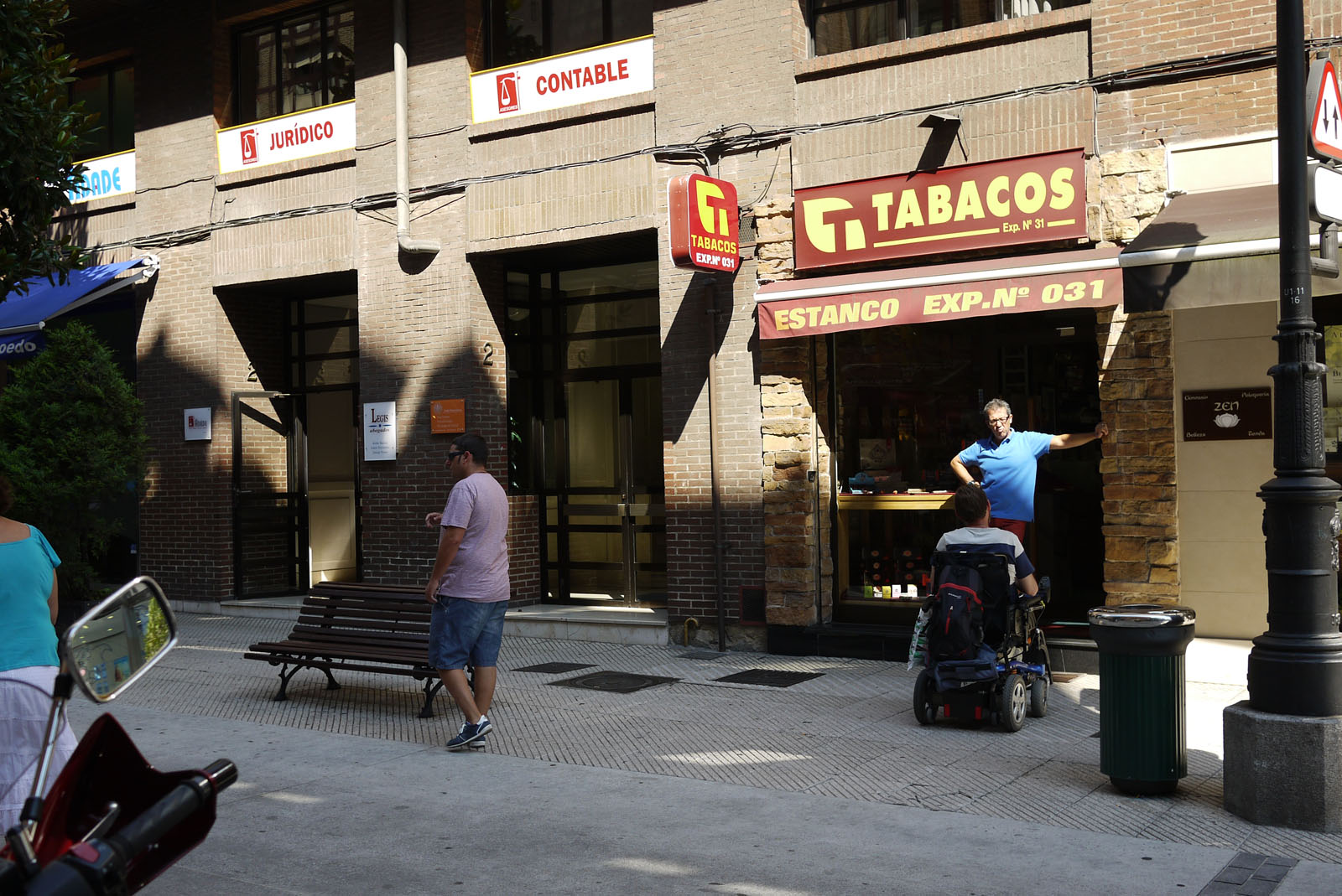 Estanco